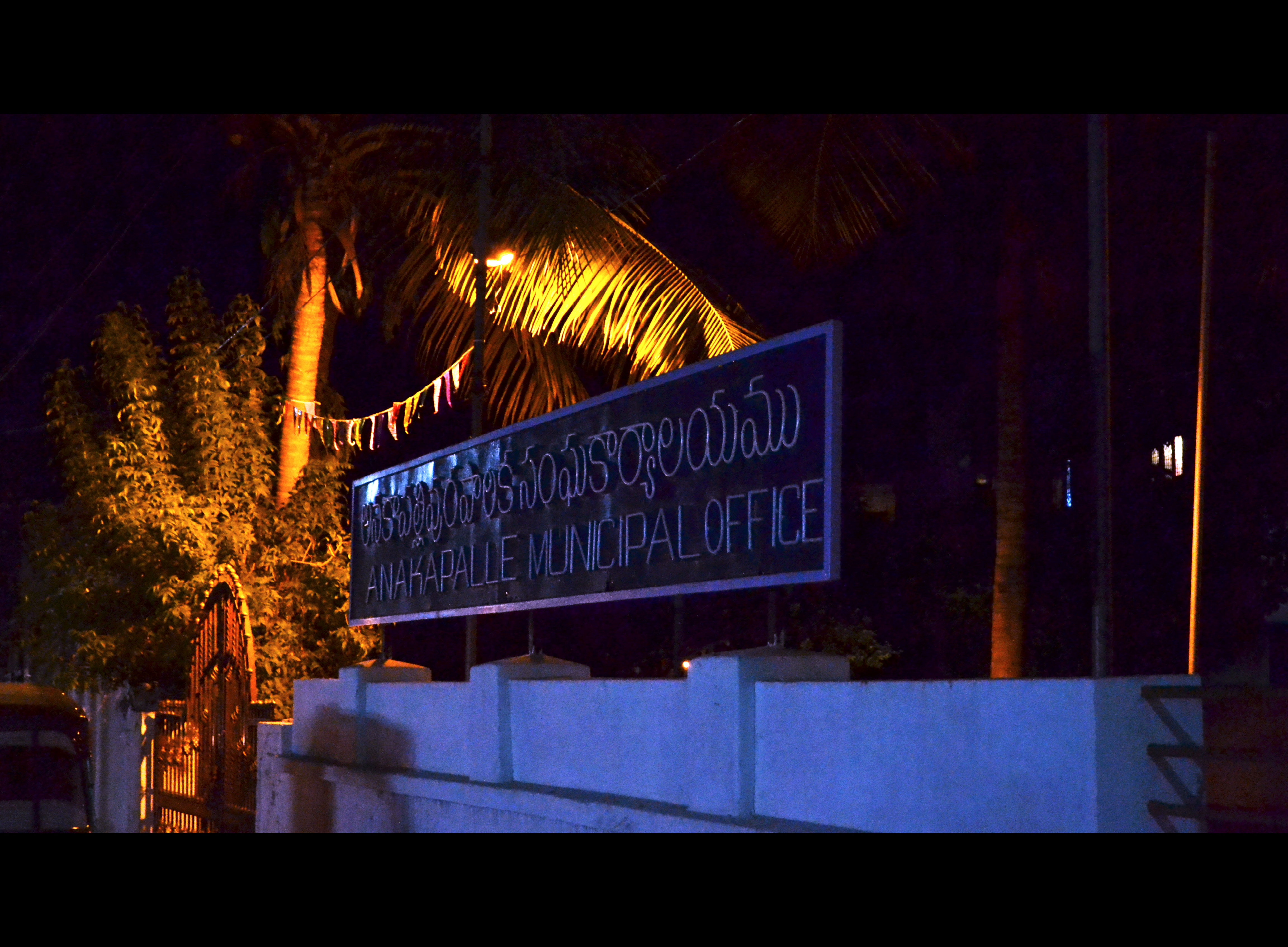 The sign at the front of the Anakapalle Municipal Office.